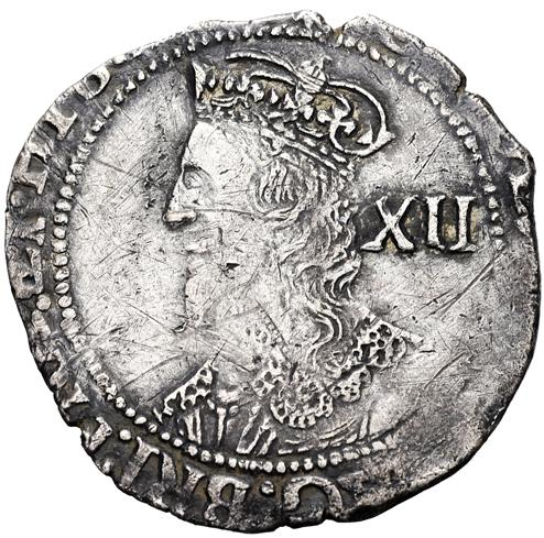 Shilling of Charles I